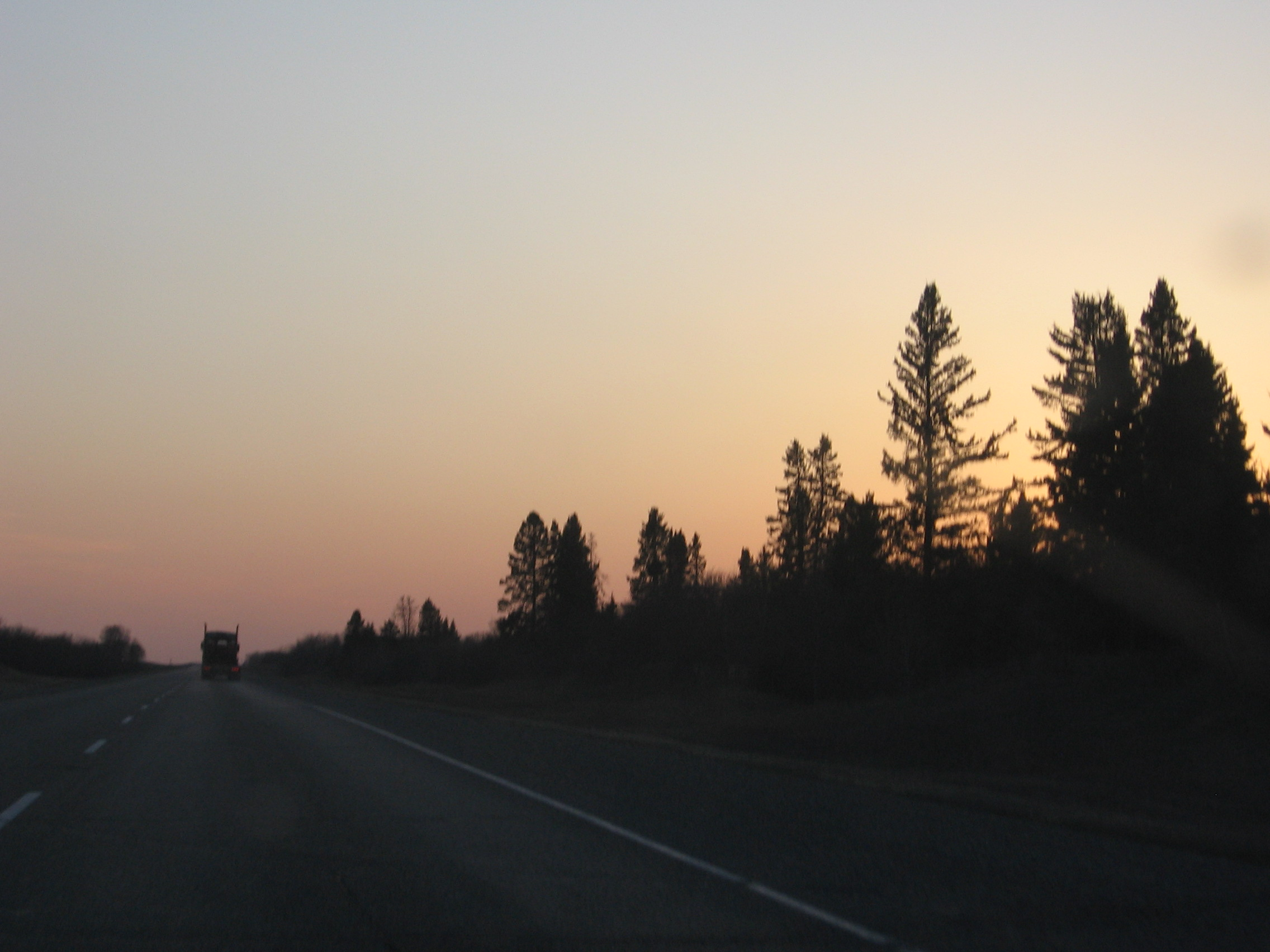 Trans Canada Highway passing through the R.M. of North Cypress, Manitoba, Canada